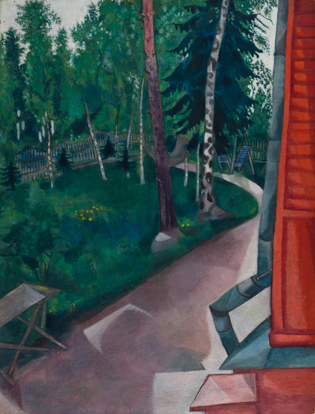 Summer residence